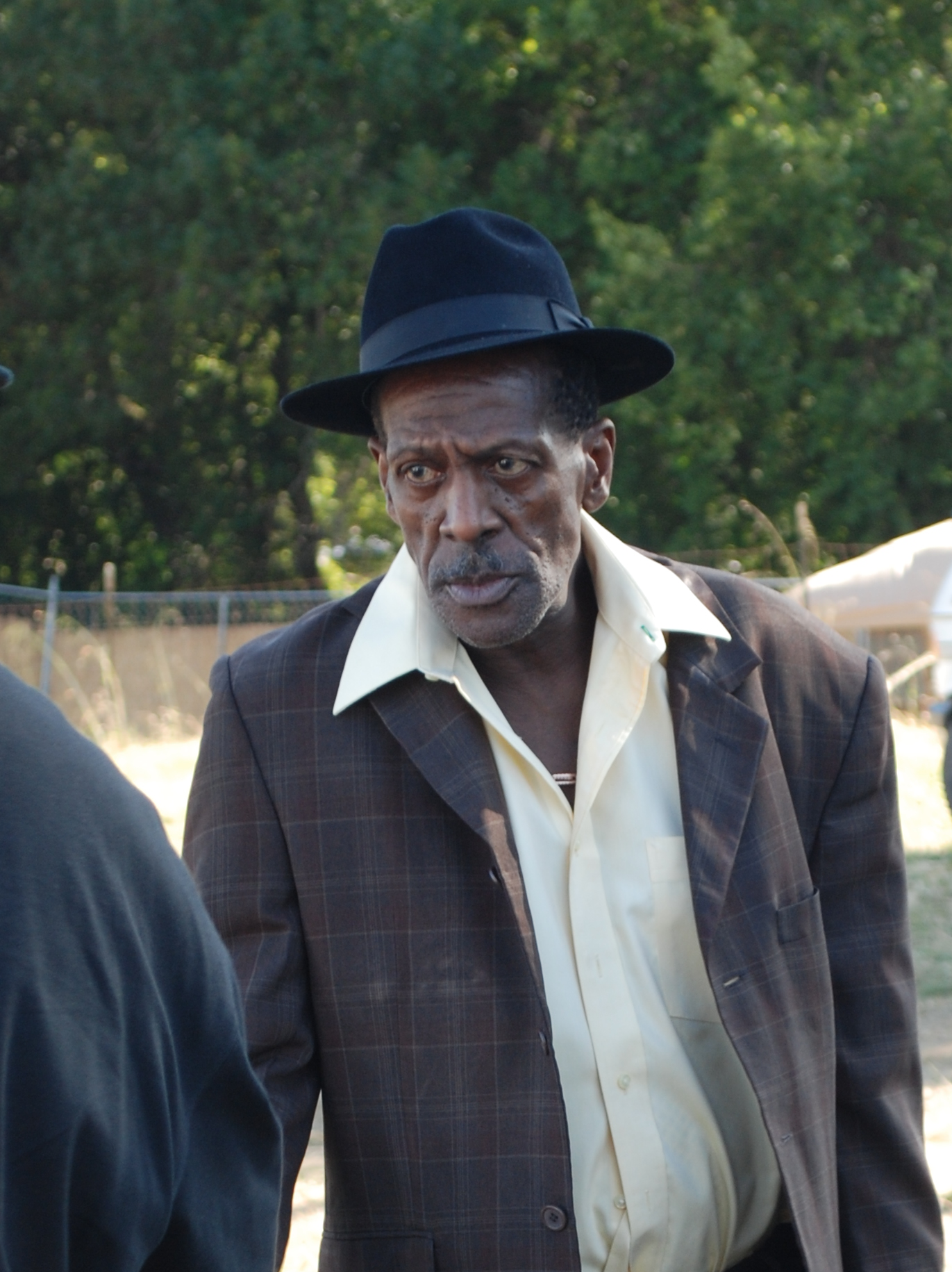 Gregory Isaacs at Sierra Nevada World Music Festival 2010